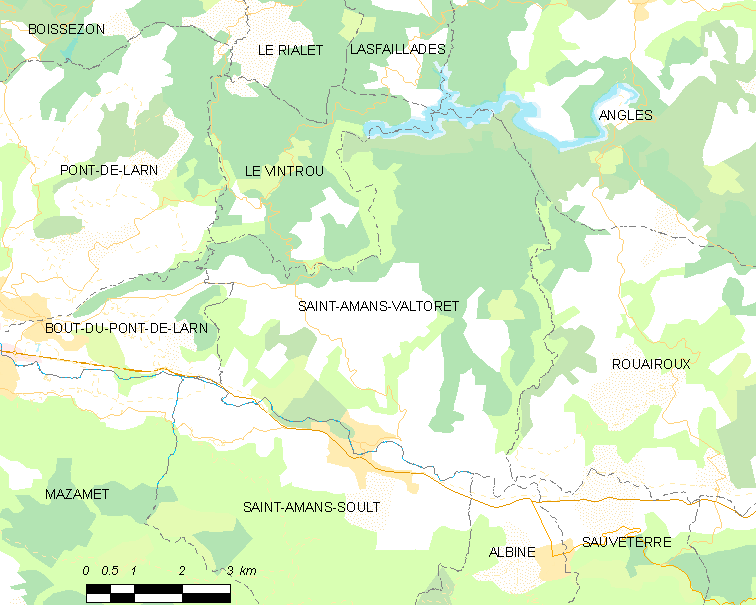 Map commune FR insee code 81239.png - Saint-Amans-Valtoret